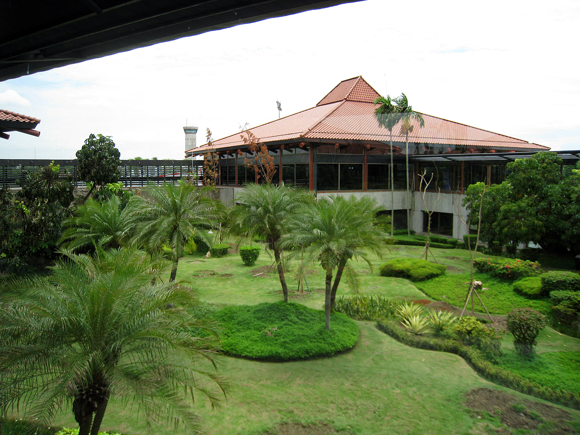 The Javanese Joglo architecture departure terminal with garden enclosure within. Soekarno Hatta International Airport Terminal 2, Jakarta, Indonesia.